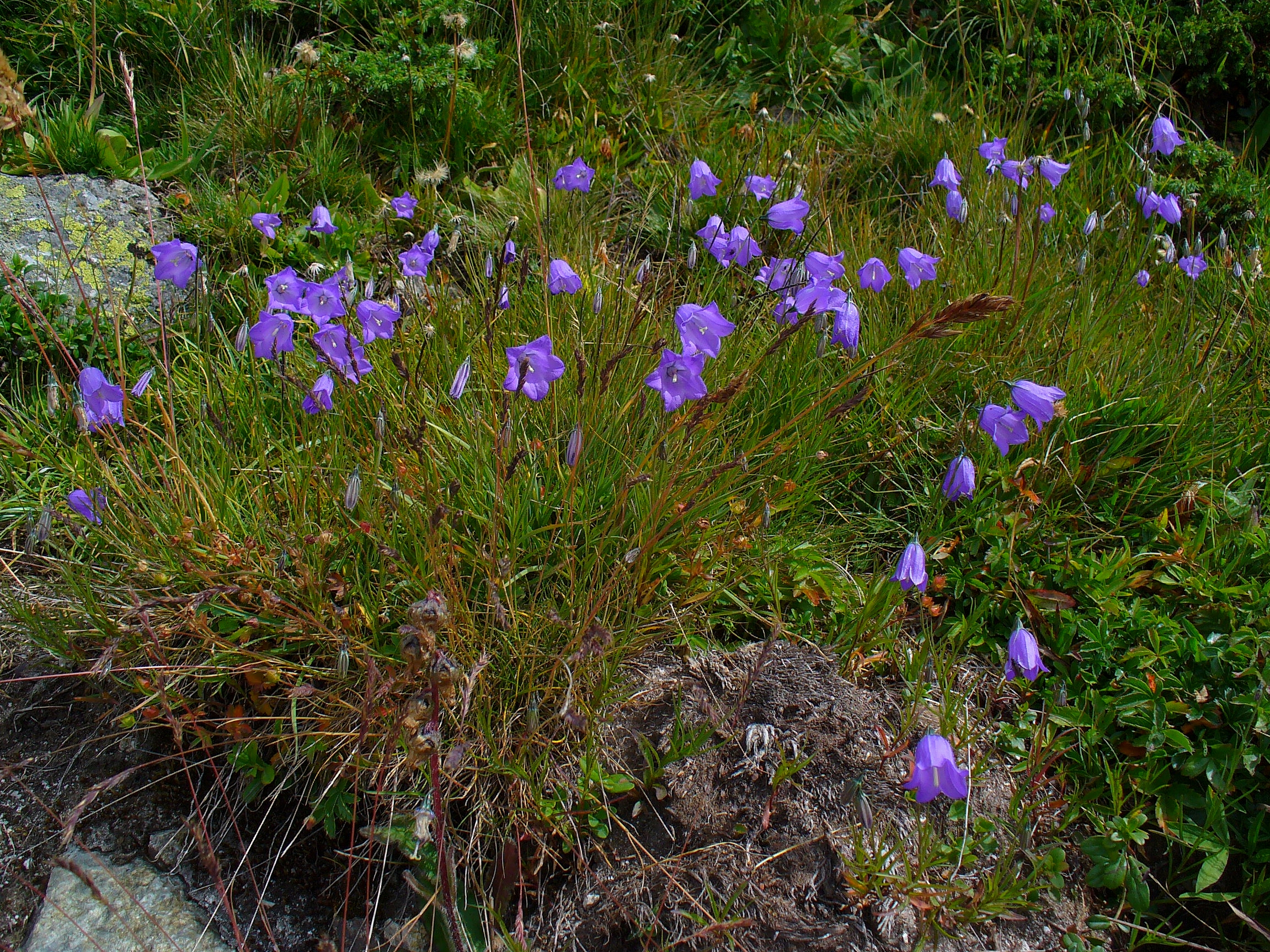 Campanula scheuchzeri, Campanulaceae, Scheuchzer’s bellflower, habitus; Muottas Muragl, Engadin, Switzerland, altitude ca. 2400 m